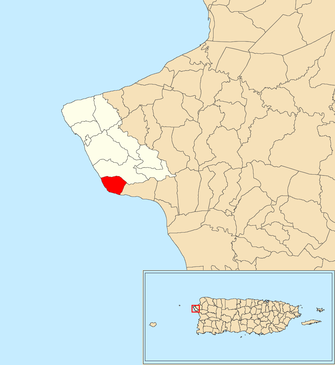 Barrero, Rincón, Puerto Rico locator map